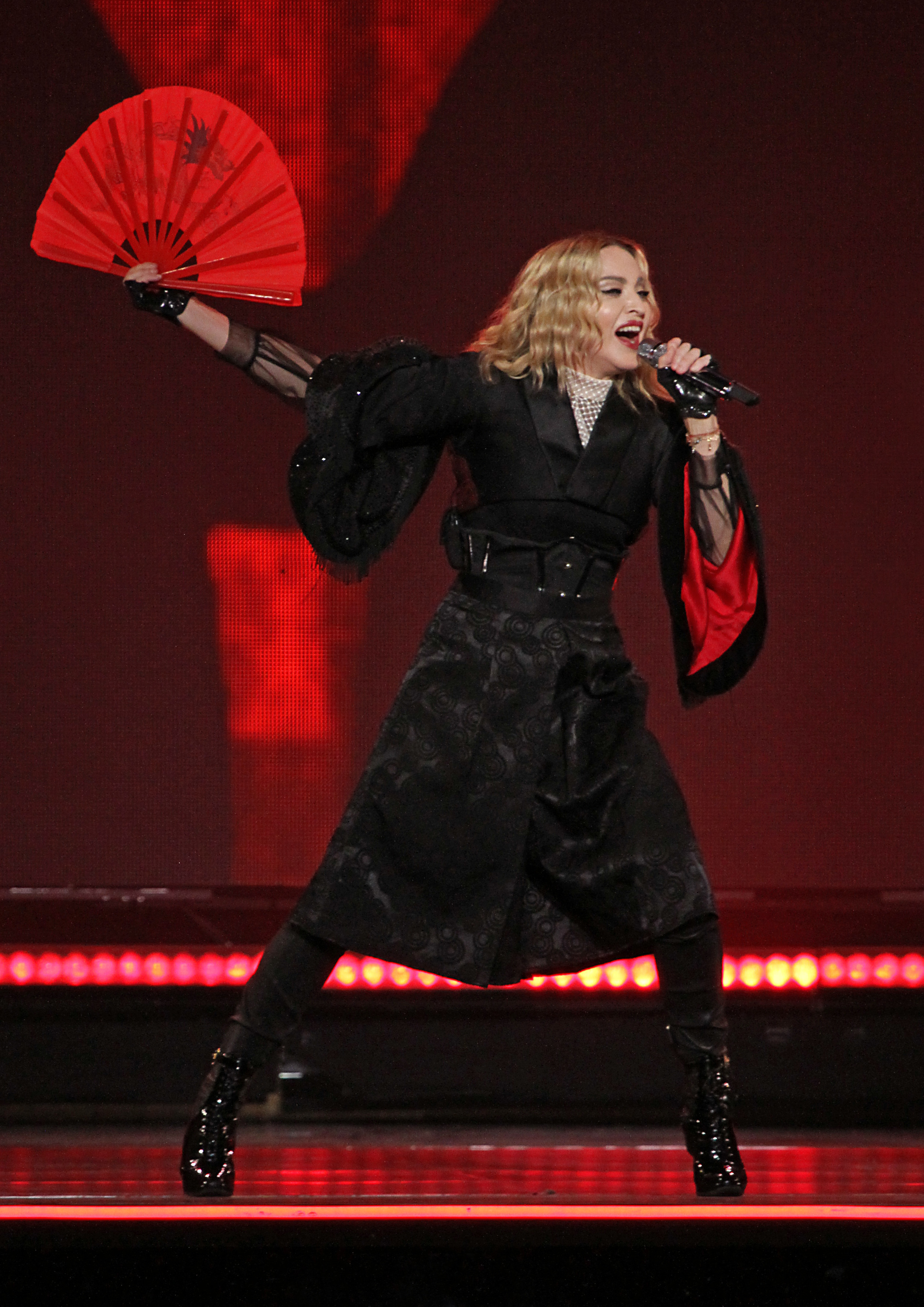 Madonna @ Xcel Energy Center, St. Paul, MN 10.8.15 Photo Copyright (billy briggs) Please do not steal, download or re-post my images without prior consent & proper credit. BLOGS INCLUDED! Most images are available as prints, however some are not due to contractual agreements. If you're interested in licensing an image or purchasing a print, please feel free to email me.